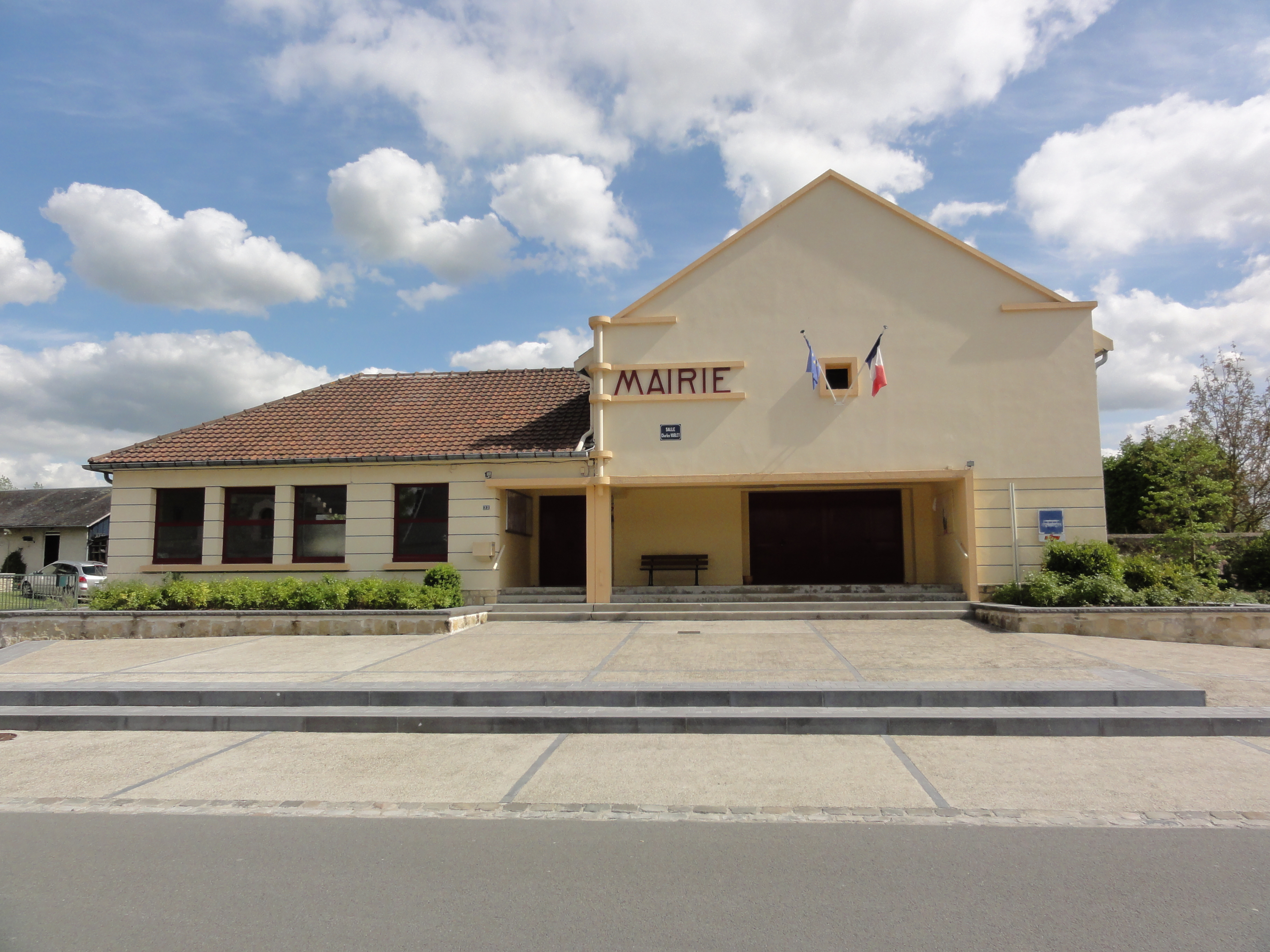 Étouvelles (Aisne) mairie